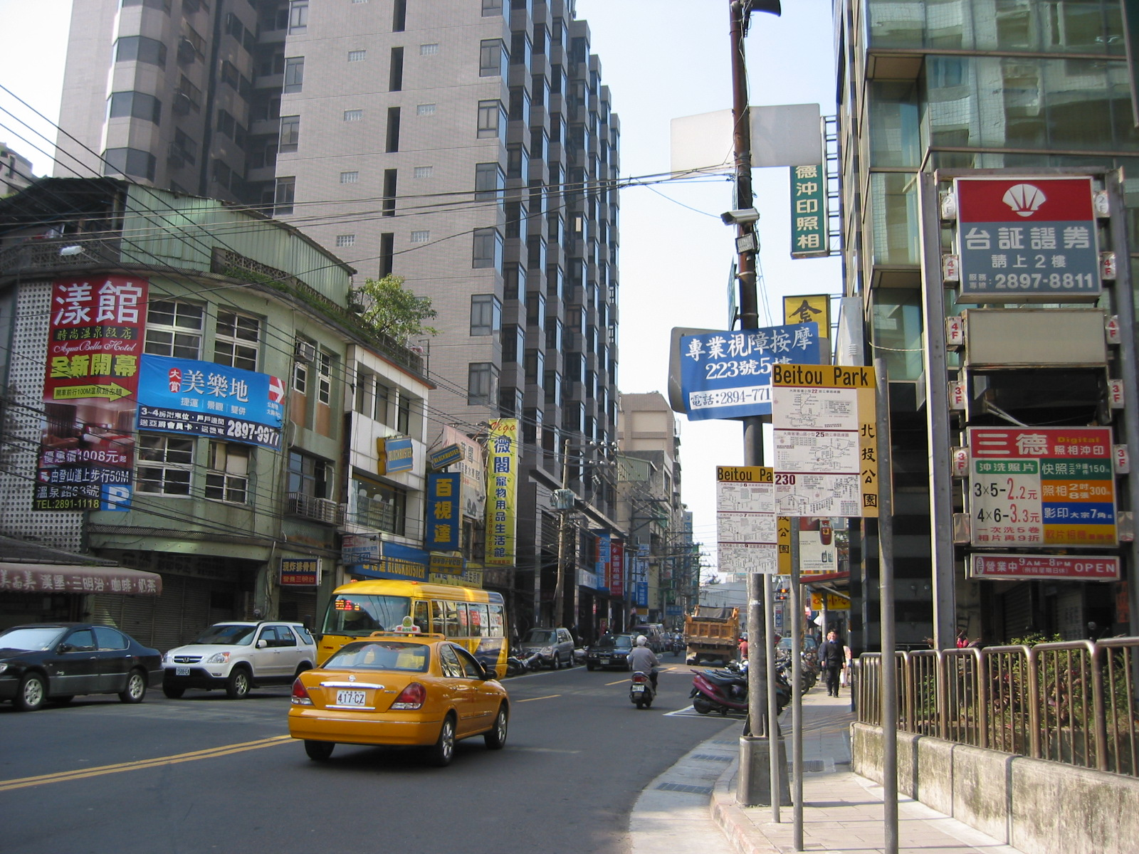 "Beitou Park" bus stop boards on Kuang Ming Road, Beitou District, Taipei City.